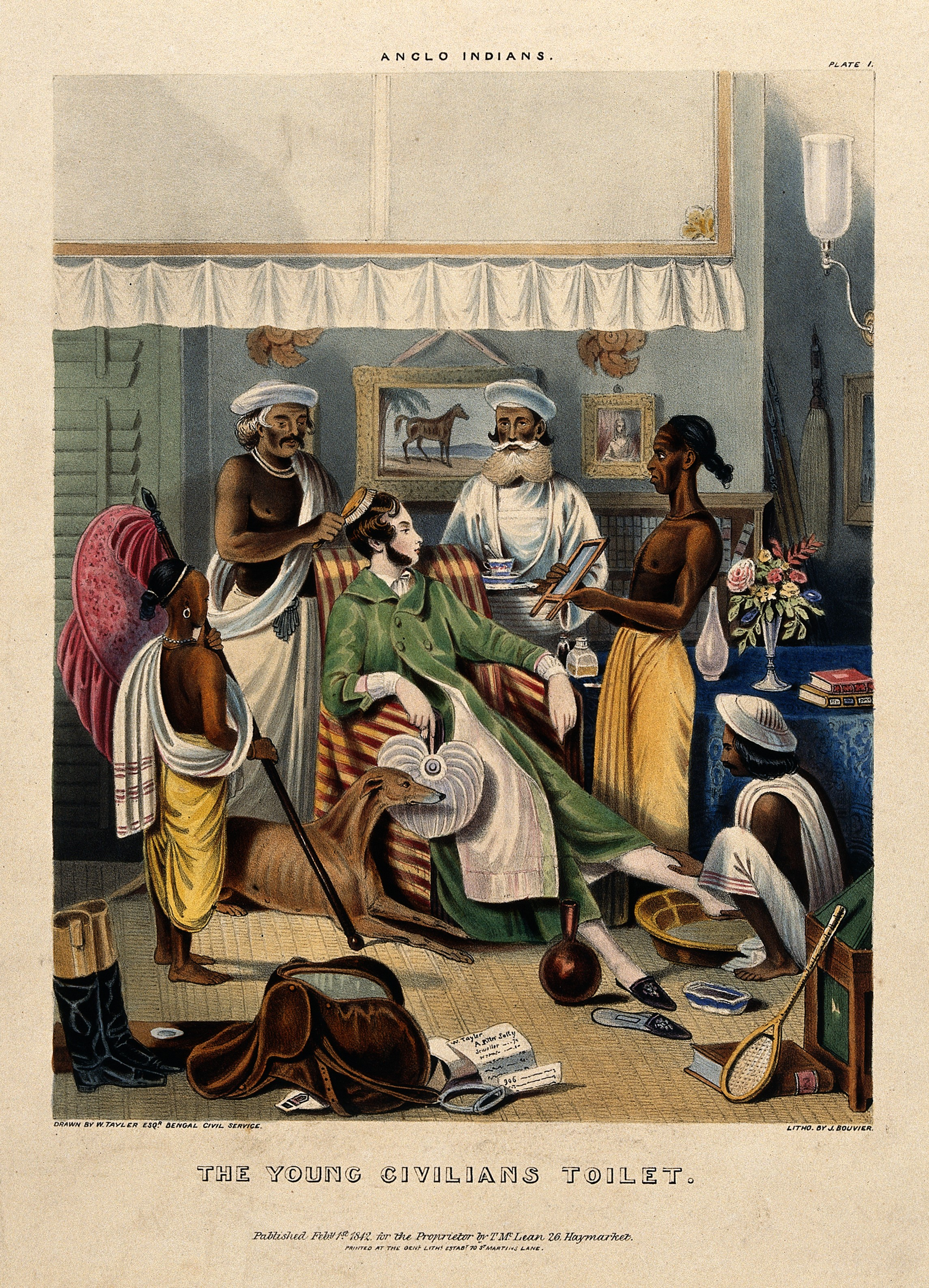 A male Anglo-Indian being washed, dressed and attended by five Indian servants. Coloured lithograph by J. Bouvier, 1842, after W. Tayler. Iconographic Collections Keywords: Jules Bouvier; William Tayler